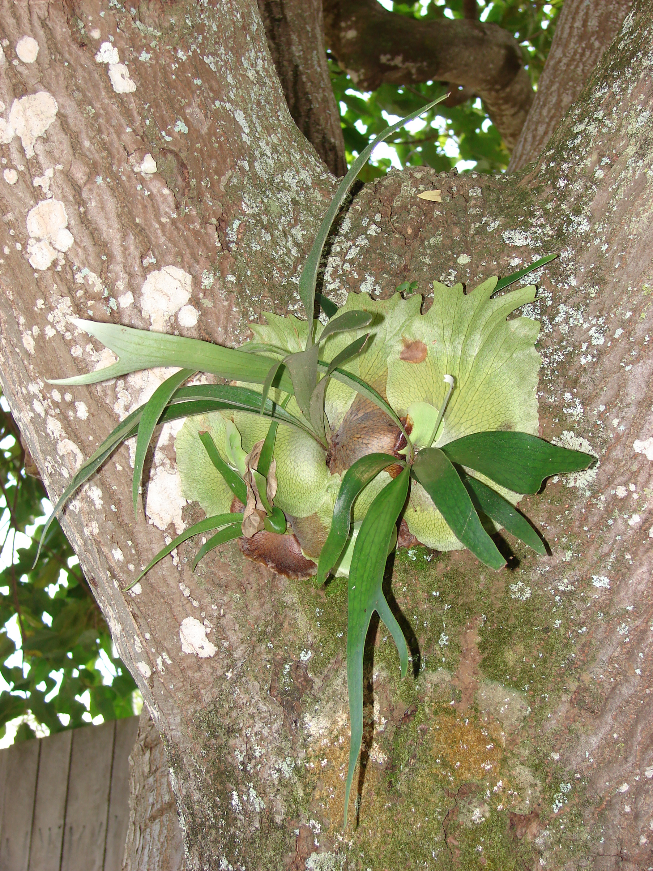 Platycerium sp. (in tree). Location: Maui, Ulupalakua Ranch HQ